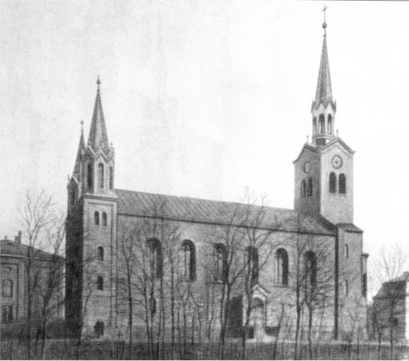 Protestant church in Kattowitz, Upper Silesia.